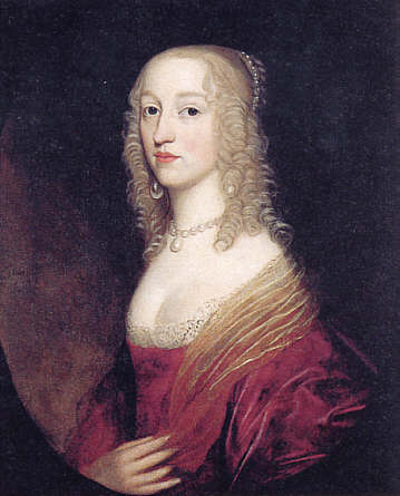 Portrait of Luise Hollandine, in fact Louise Maria, Pfalzgräfin bei Rhein